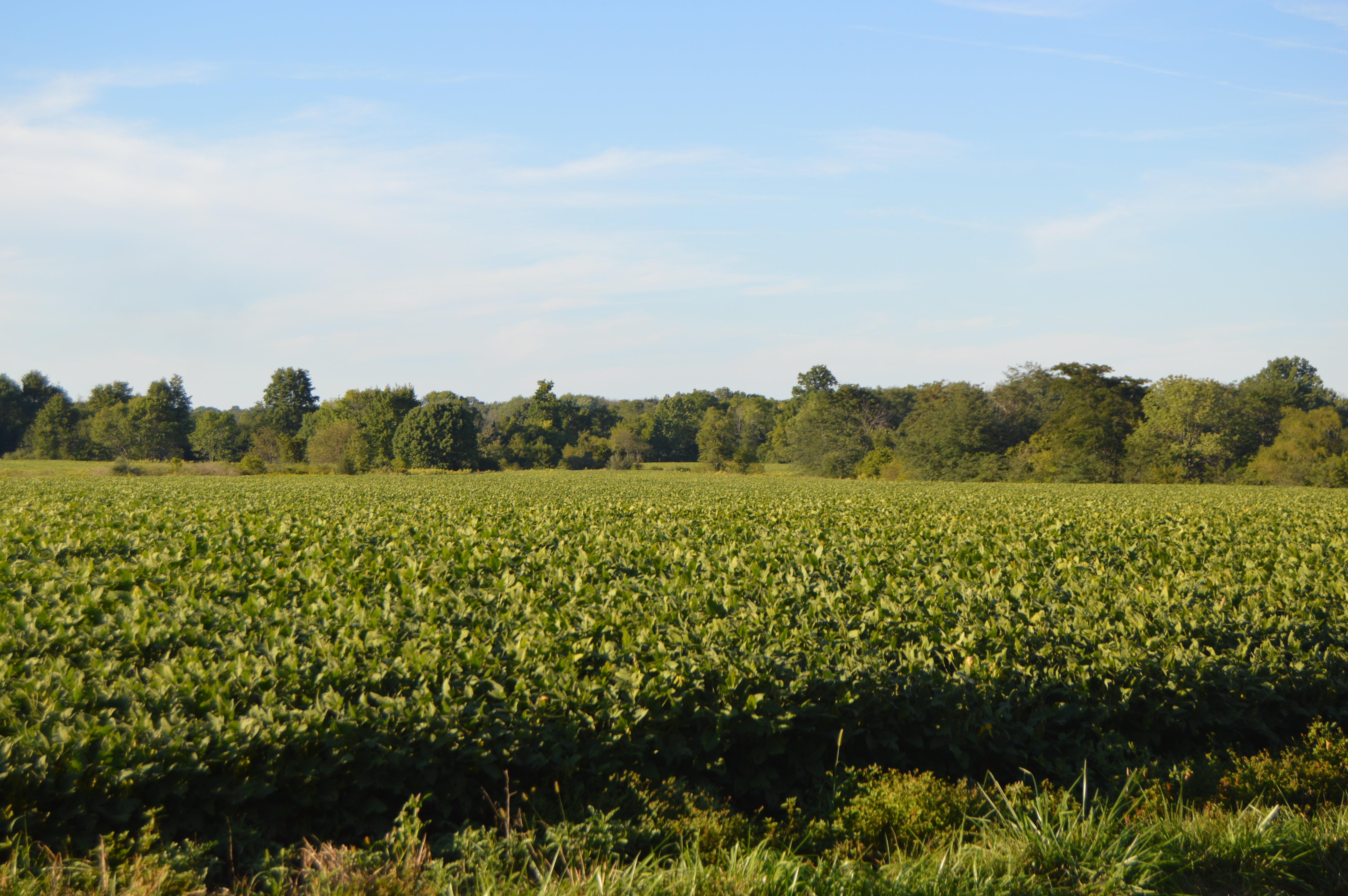 Fields on the northern side of Oregonia Road just east of Murray Road in far southwestern Massie Township, Warren County, Ohio, United States.